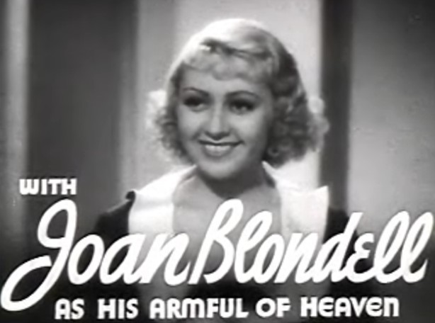 Cropped screenshot of Joan Blondell from the trailer for the film Broadway Gondolier